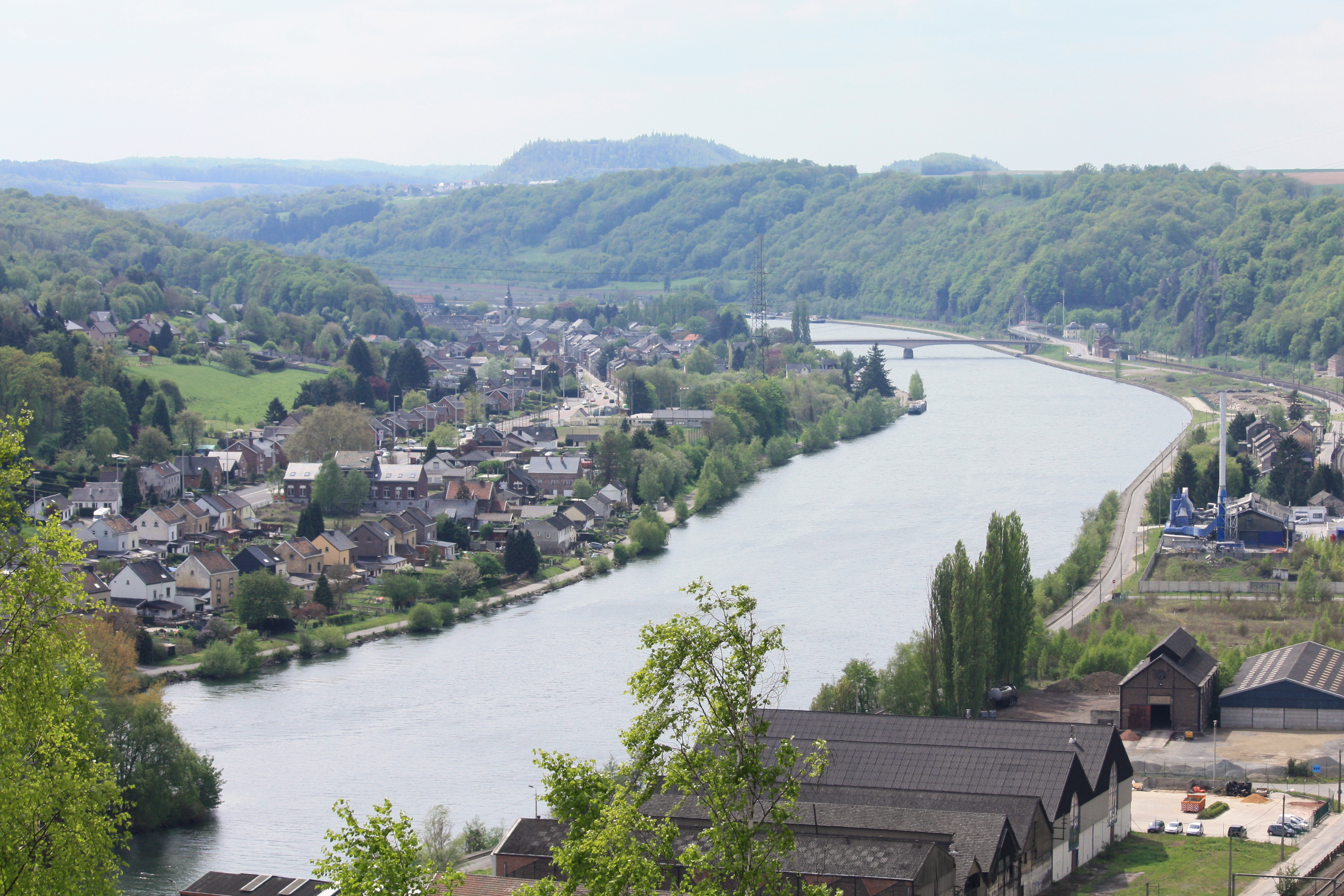 Sclayn, Belgium. View from the natural reserve of Sclaigneaux.